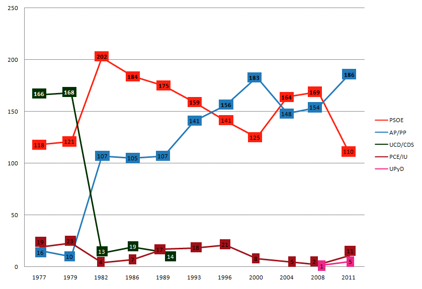 Spanish seat evolution graph for PSOE, PP, UCD and IU in the general elections 1977-2011.